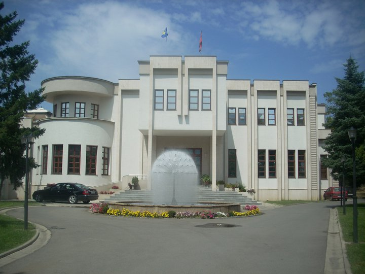 Place: Prizren, Kosovo